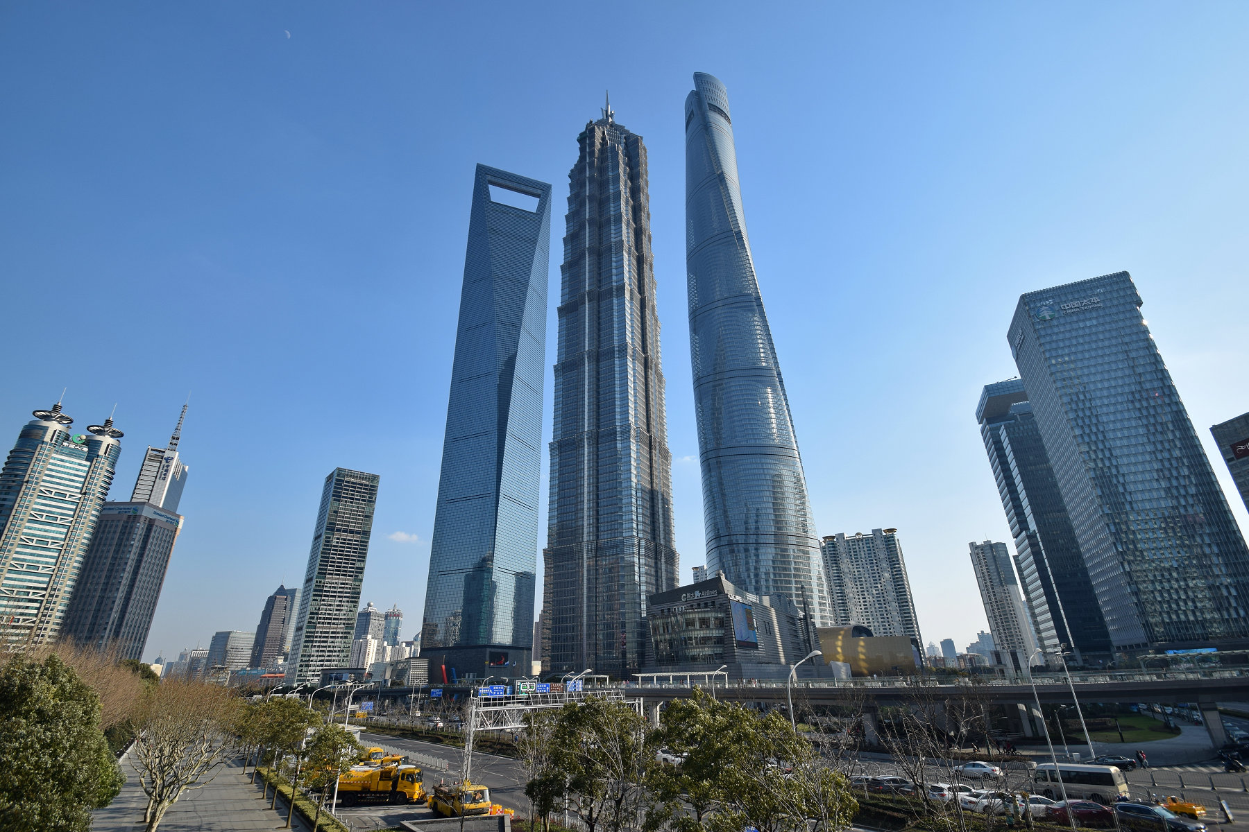 Shanghai World Financial Center / Jin Mao Tower / Shanghai Tower, tallest buildings in Lujiazui, Shanghai(architect of Shanghai World Financial Center: Kohn Pedersen Fox @ KPF / architect of Jin Mao Tower: Adrian D. Smith @ SOM / architect of Shanghai Tower: Jun Xia @ Gensler)